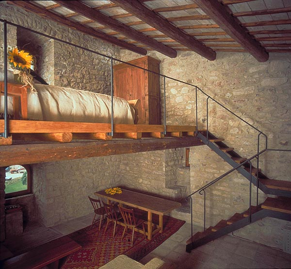 After renovation the interior of TodiCastle